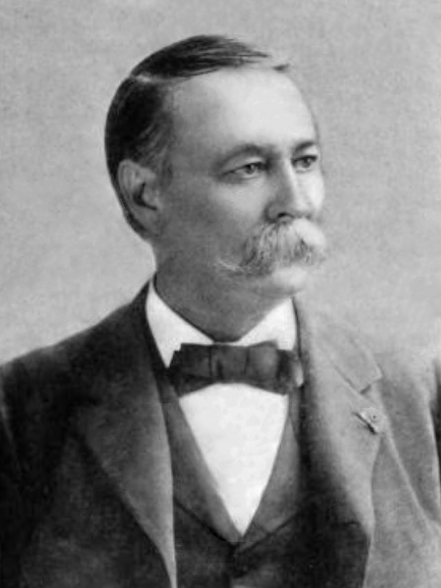 Amos Jay Cummings (May 15, 1838 – May 2, 1902), United States Representative from New York (1889-1894, 1895-1902) and a recipient of the Medal of Honor.